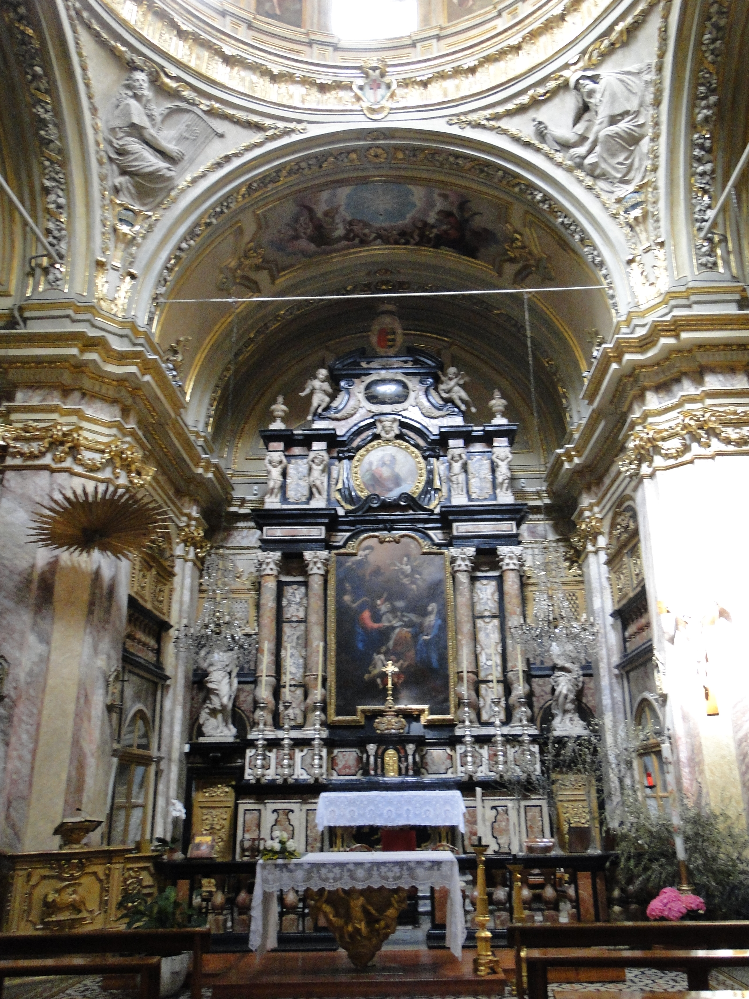 High altar of the Church of St. Joseph in Turin